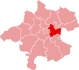 Location of Bezirk Linz-Land within the Land of Upper Austria